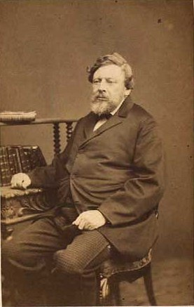 Adam Ludvig Joachim Moltke (1805-1872), Danish translator